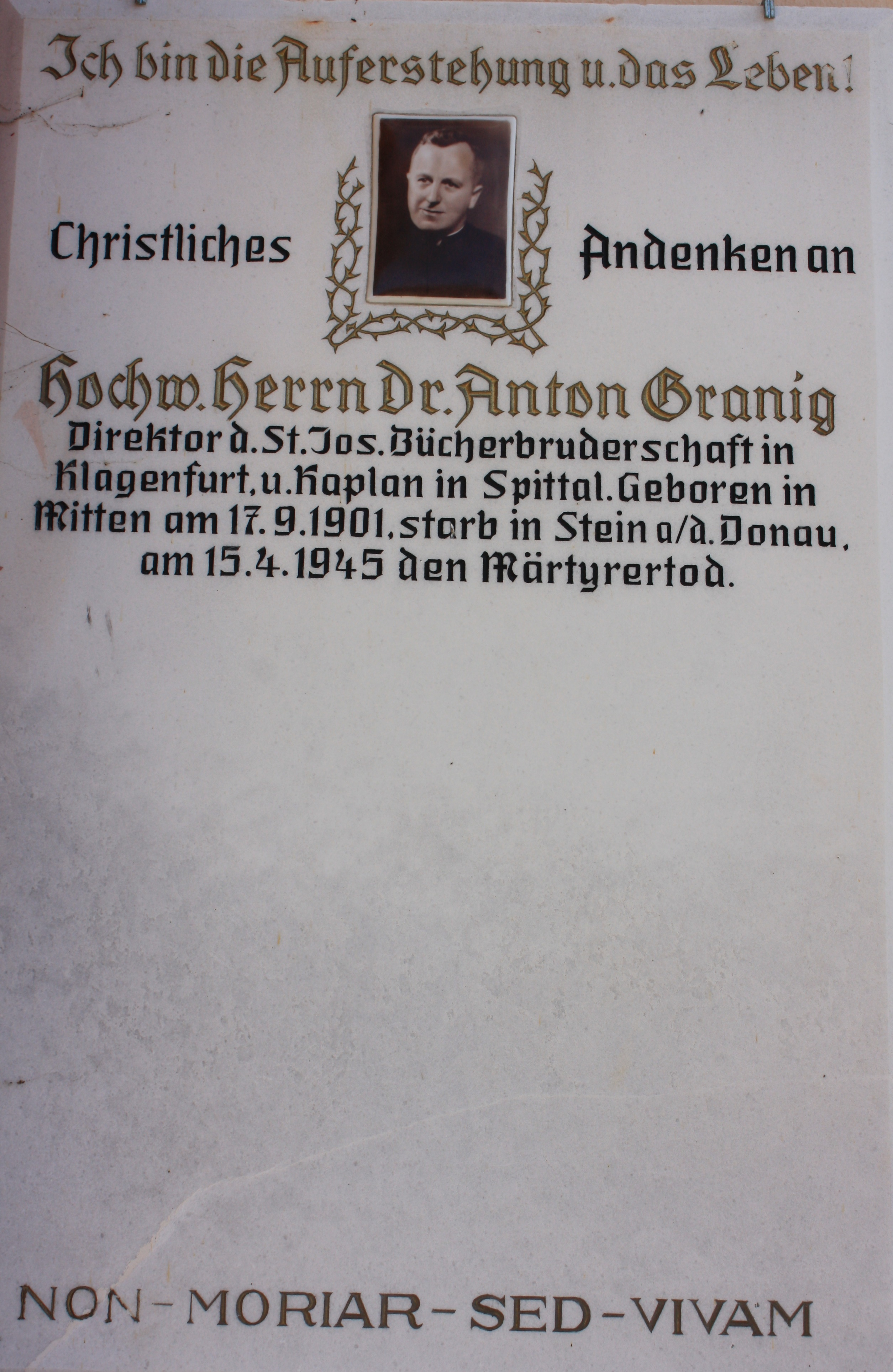 Parish church in Sagritz in the community of Großkirchheim - Memorial plat for Anton Granig